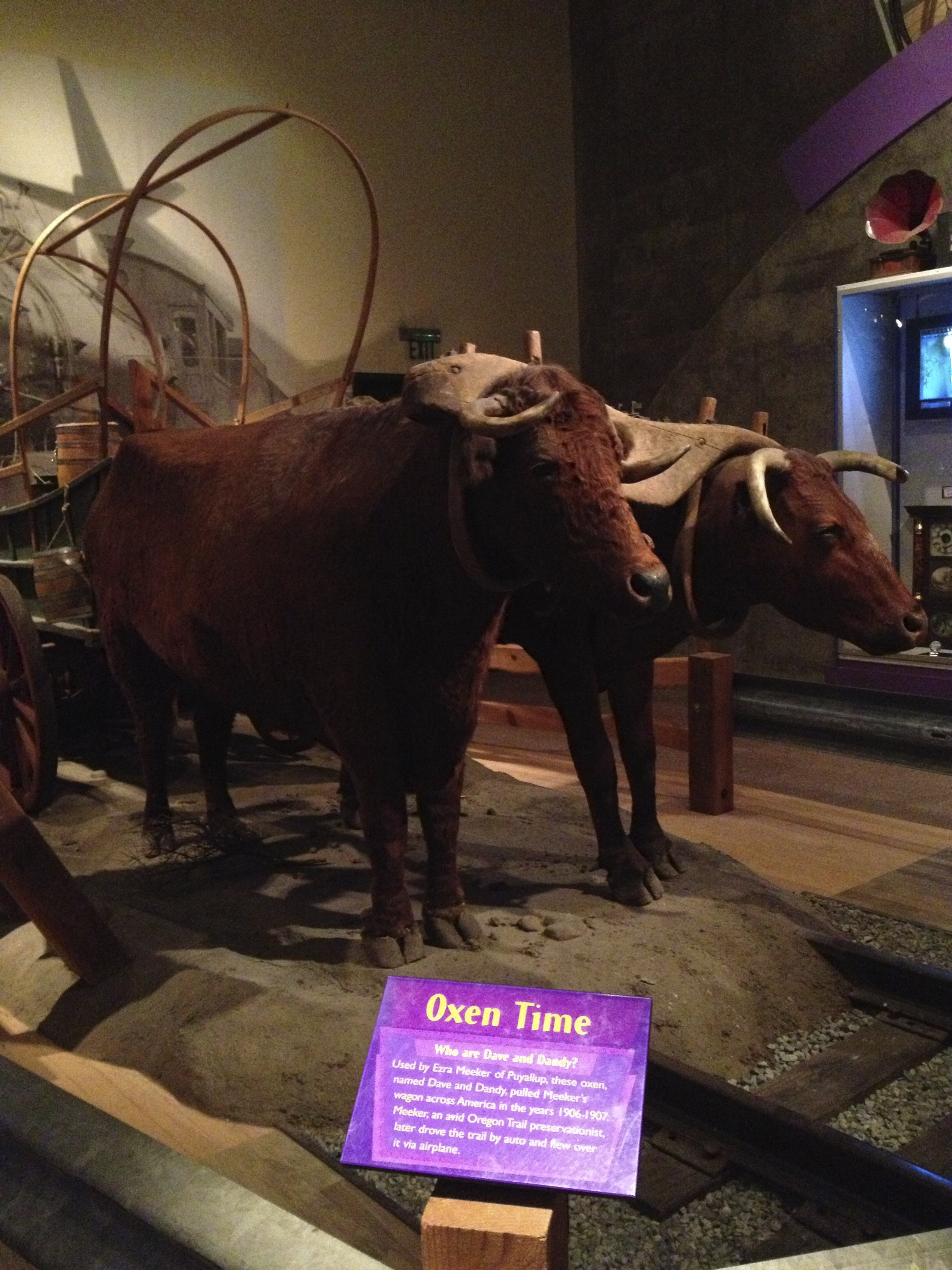 Ezra Meeker's oxen Dave and Dandy, at the Washington State Historical Society Museum in Tacoma